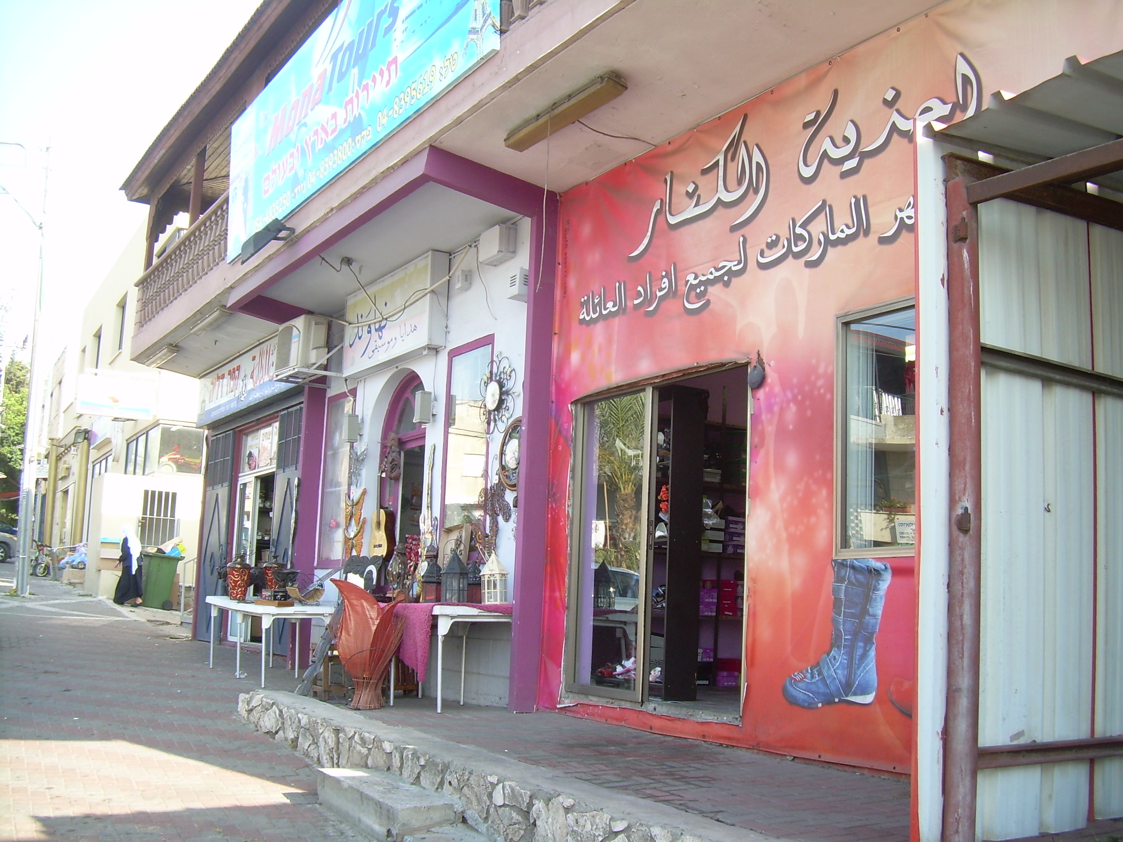 Daliyat al-Karmel shops.